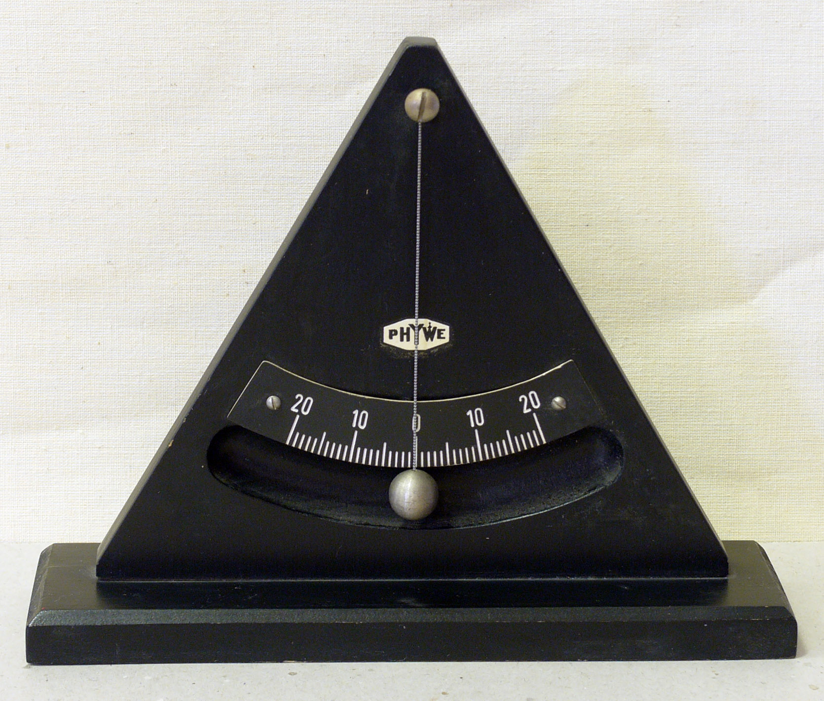 Demonstration pendulum used in science education, on display in the Schulhistorische Sammlung (School Historical Museum), Bremerhaven, Germany.